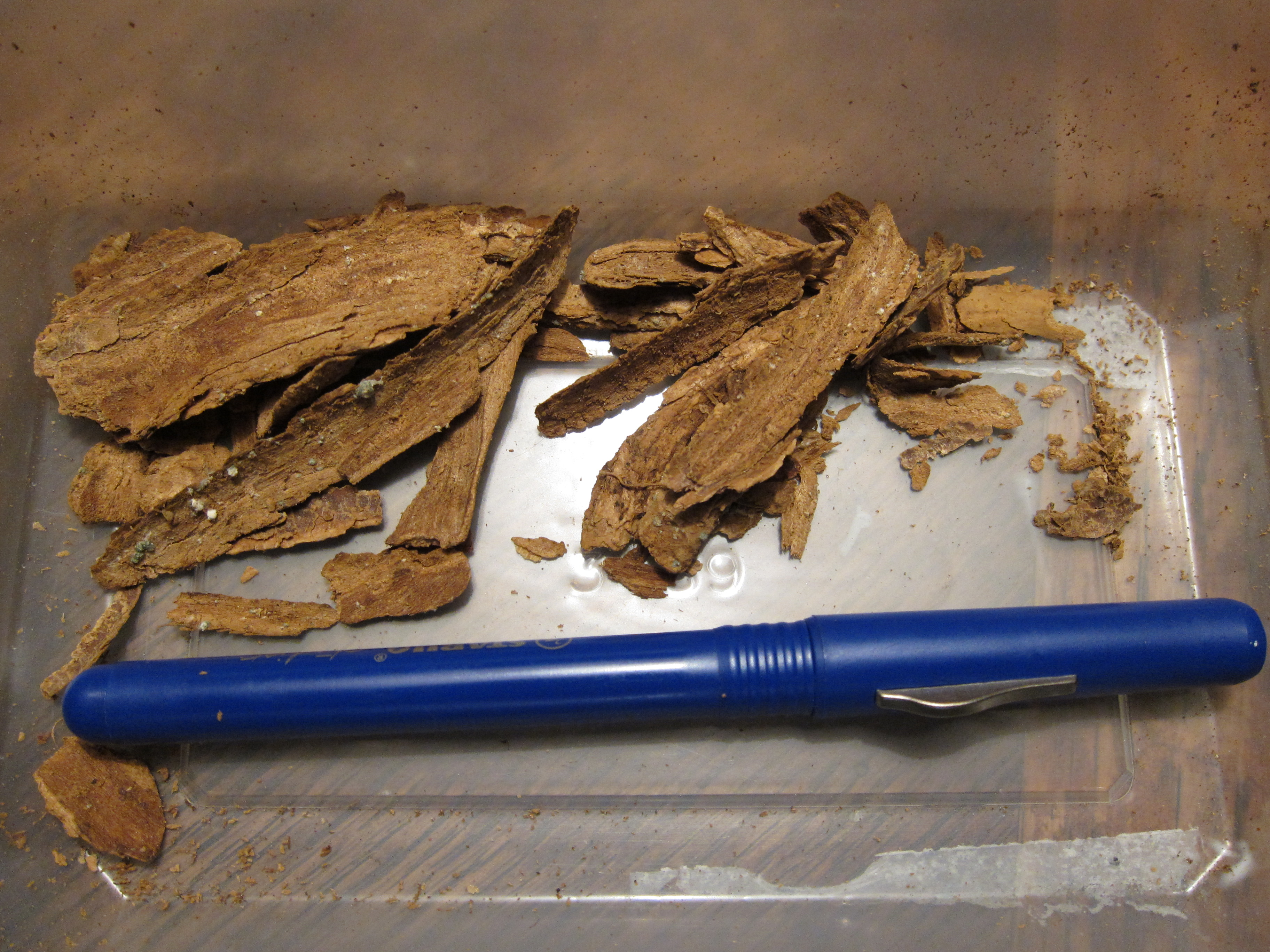 Dried bark of the plant Tabernanthe iboga.